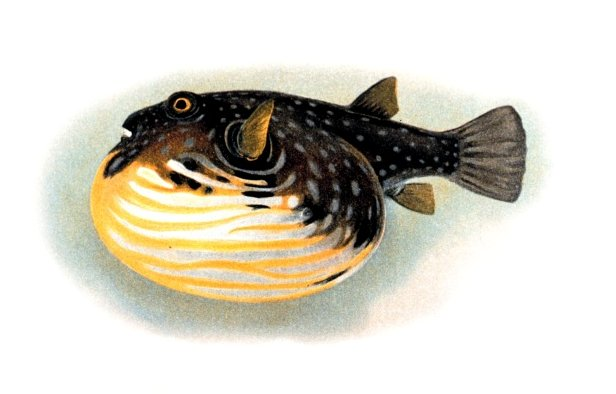 White-spotted puffer (Arothron hispidus).